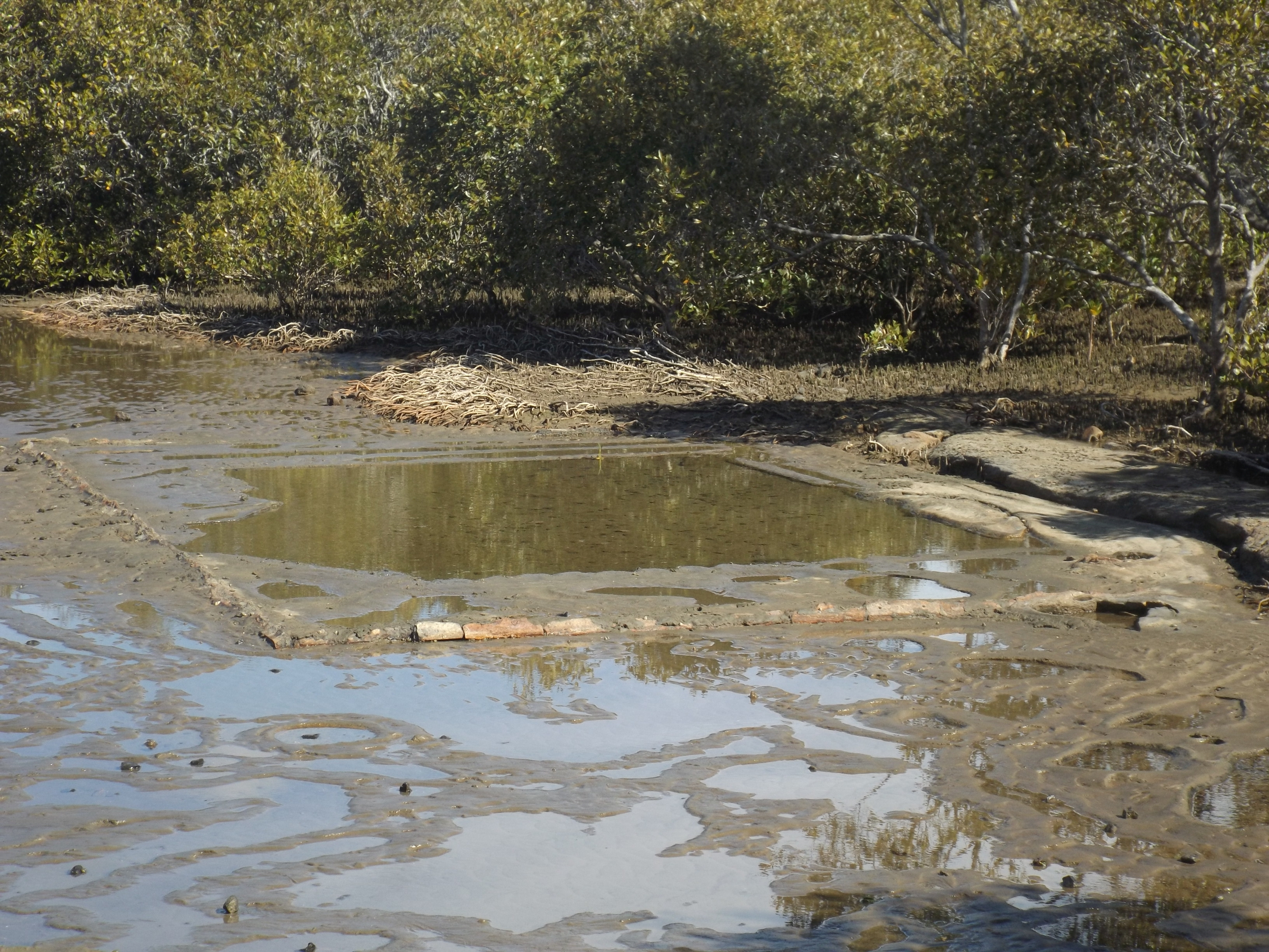 Photo of Deception Bay Sea Baths at Deception Bay, Moreton Bay Region, Queensland, Australia.